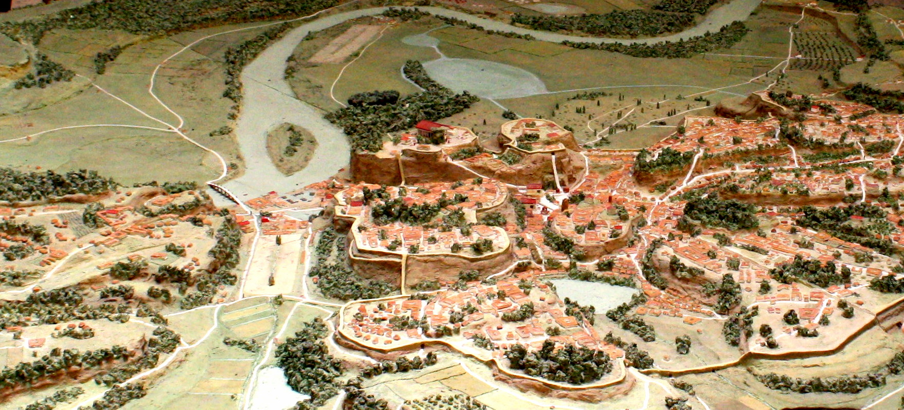 The author gives every right to public domain (see: File:Museo_della_Civiltà_Romana_-_plastico_della_Roma_arcaica.jpeg